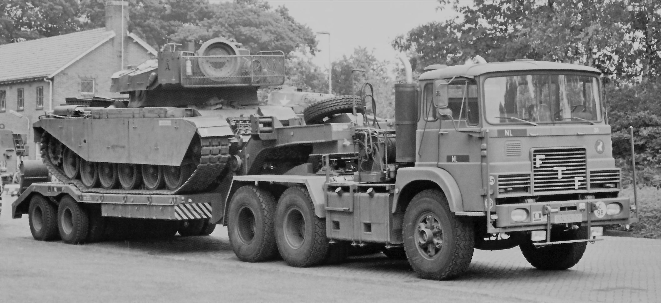 Tanktransporter of the Dutch Army FTF 4050. Picture taken at Army days at Oirschot.